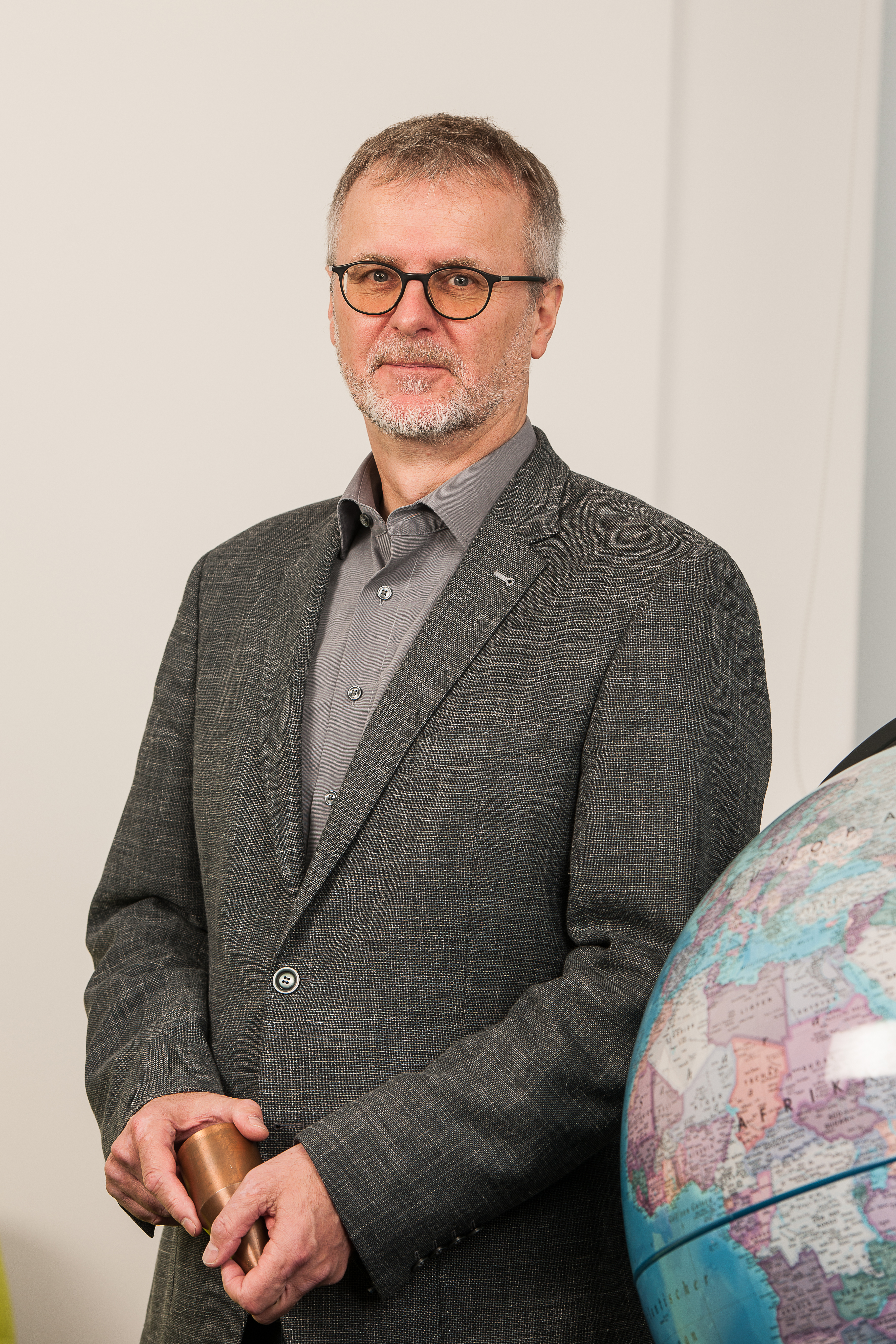 Stephan Borrmann